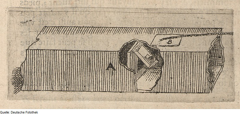 Original image description from the Deutsche Fotothek Mechanik & Musikinstrument & Orgel & Tremulant